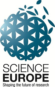 Science Europe Logo